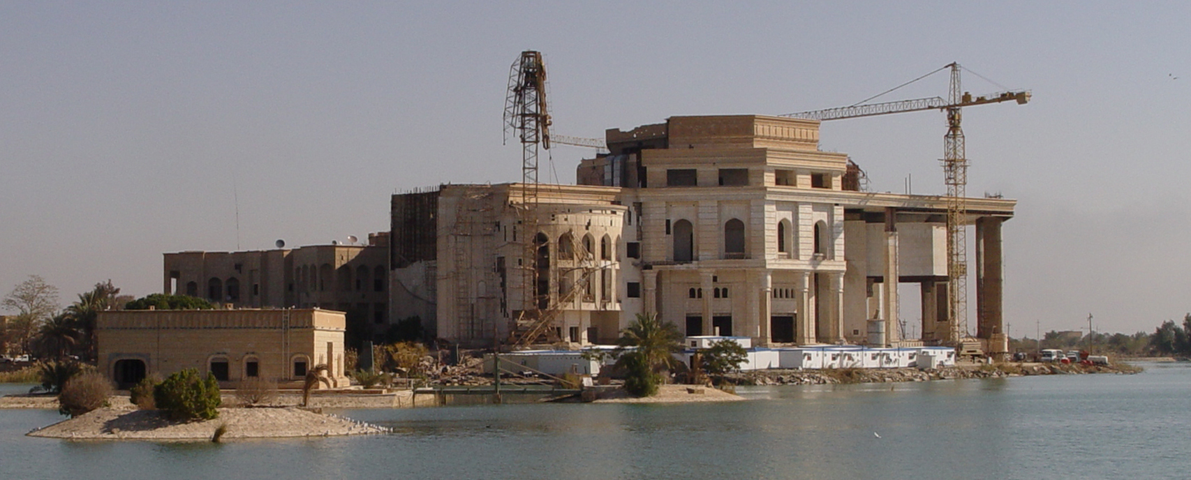 Unfinished Palace where construction was commissioned by Saddam Hussein as a symbol of victory over the US, during the 1991 Gulf War.